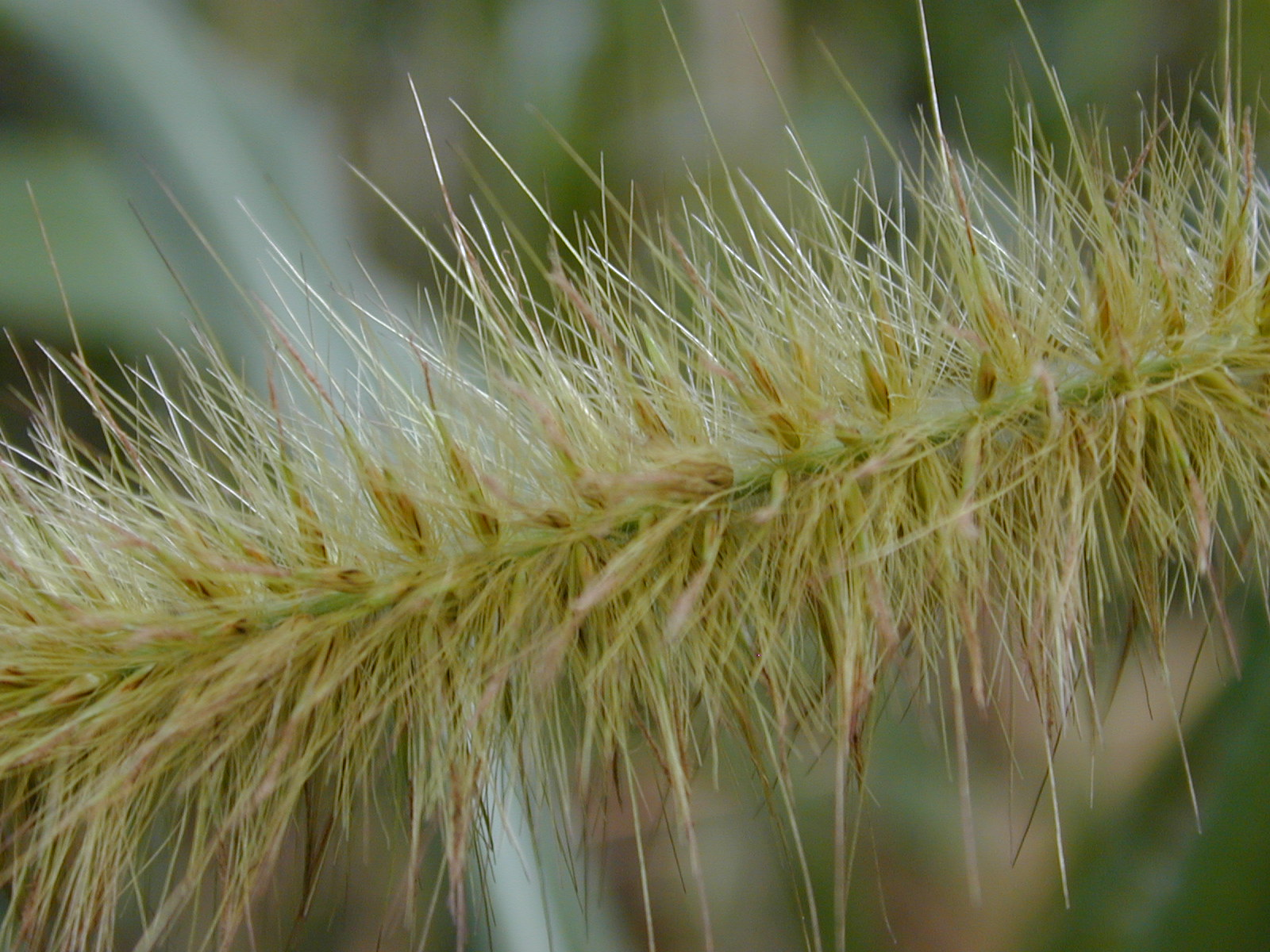 Pennisetum purpureum (seed head). Location: Maui, Makawao Forest Reserve